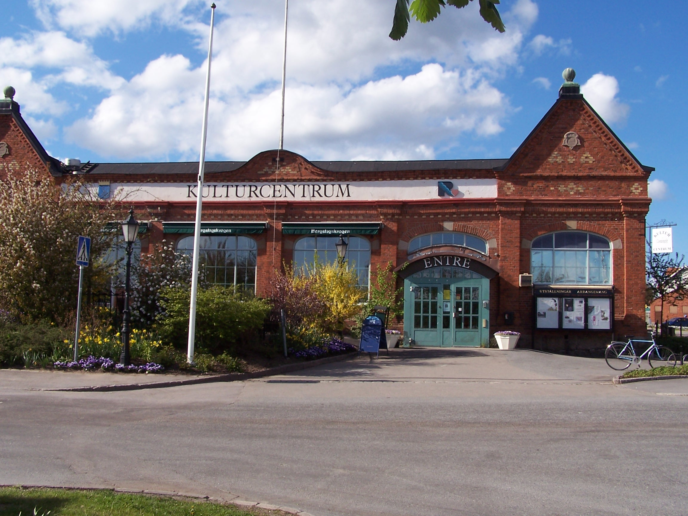 Kulturcentrum, Ronneby.